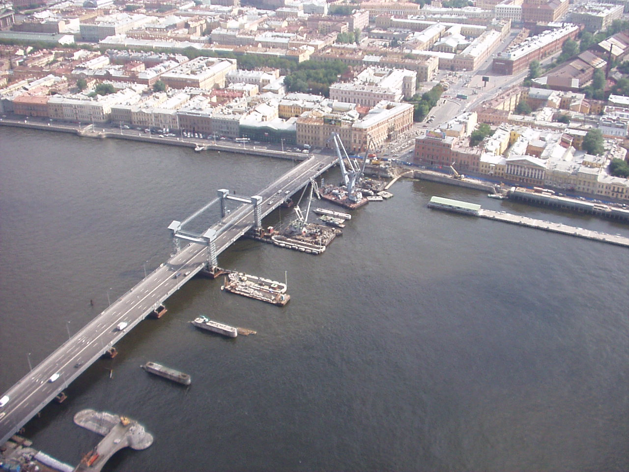 Lieutenant Schmidt Bridge substitute and disassembled original (Saint Petersburg, Russia)